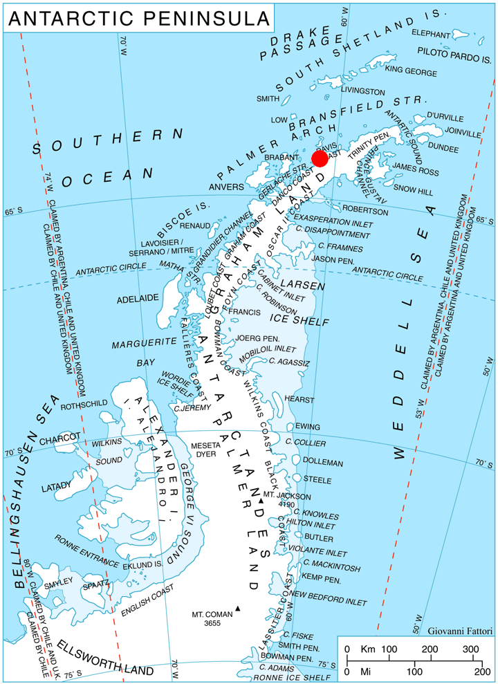 Location of Chavdar Peninsula, Antarctica.